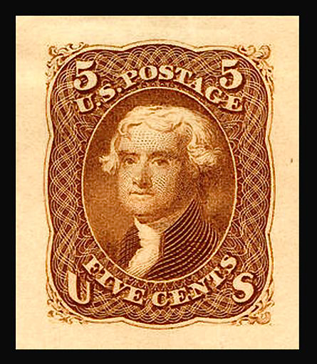 U.S. Postage stamp, Die proof, Thomas Jefferson, Issue of 1861, 5c, brown